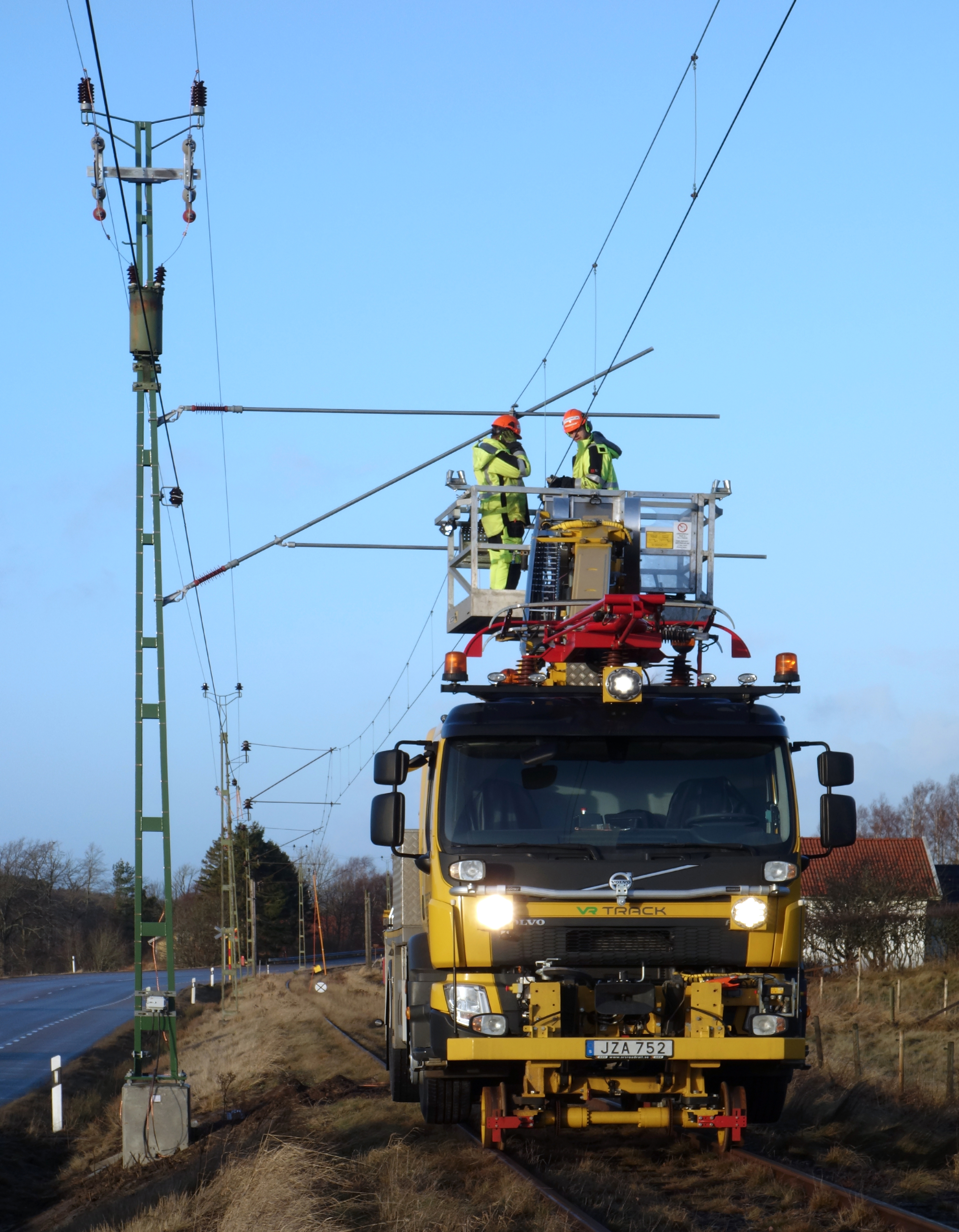 A crew doing repairs and maintenance on the overhead lines on Lysekilsbanan, the Lysekil Line, at Öhed between Brastad and Gåseberg in Lysekil Municipality, Sweden. The picture was taken with the consent of the crew. The railway is part of Lysekilsbanan, an inactive line in 2016. For active railroads, do not take pictures on, or in very close proximity to, the tracks unless you are able to arrange safe circumstances to do so.